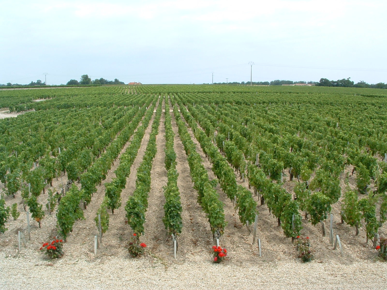 View upon the vineyards of Haut-Marbuzet.